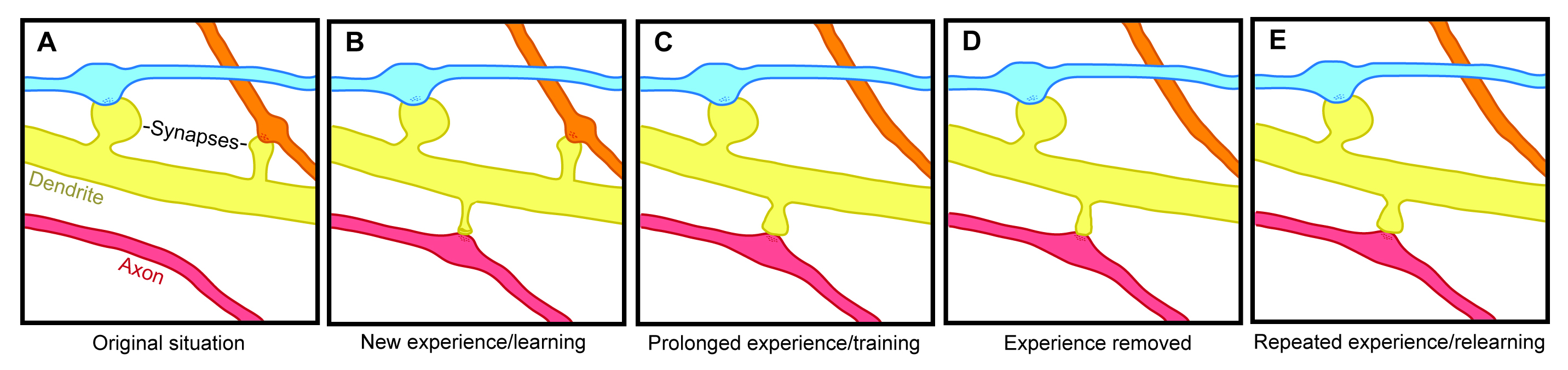 Experience-induce dendritic spine formation and elimination in the brain.